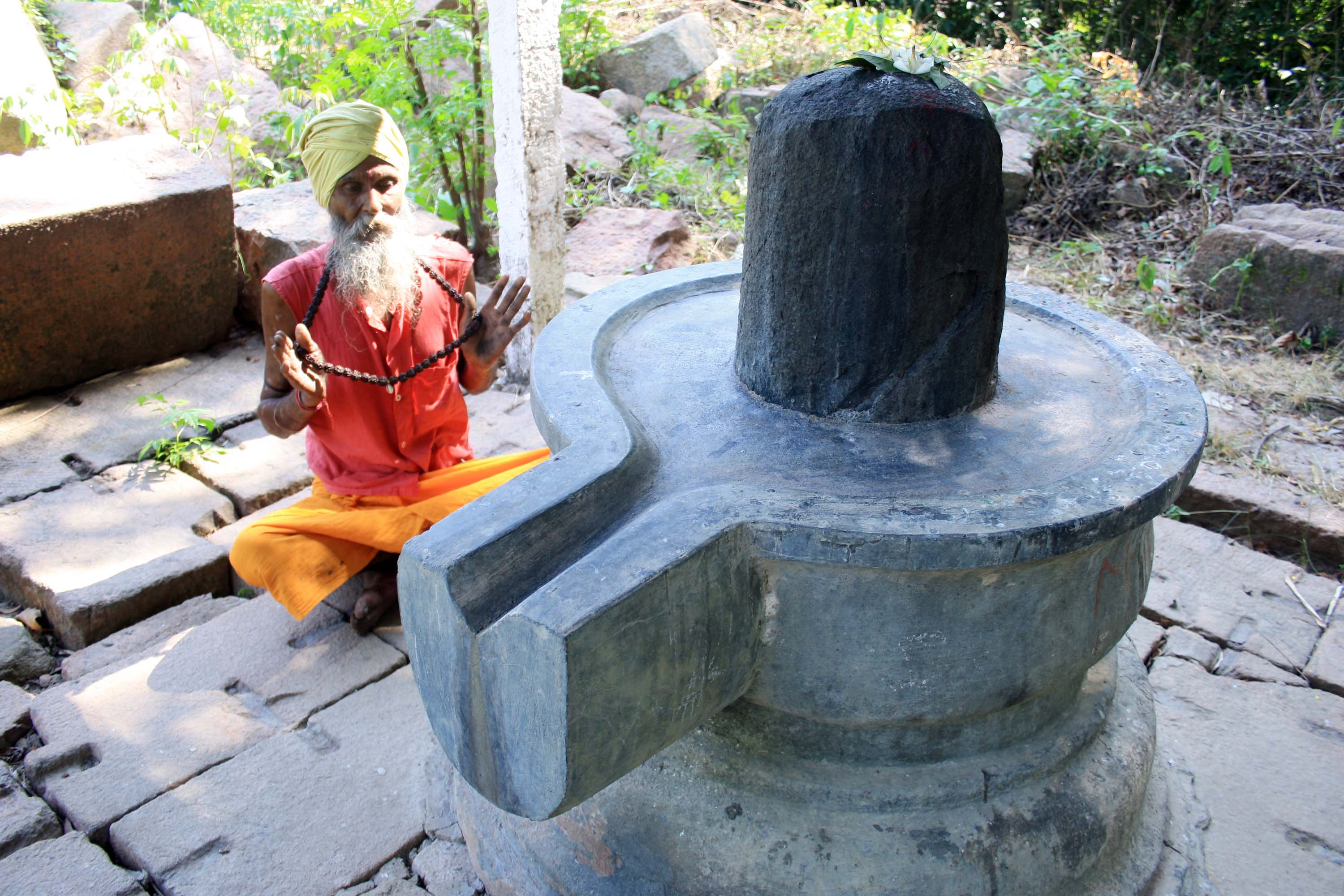 Ancient Shiv Ling at Rajbari in Jugijaan area near Doboka in Nagaon district of Assam